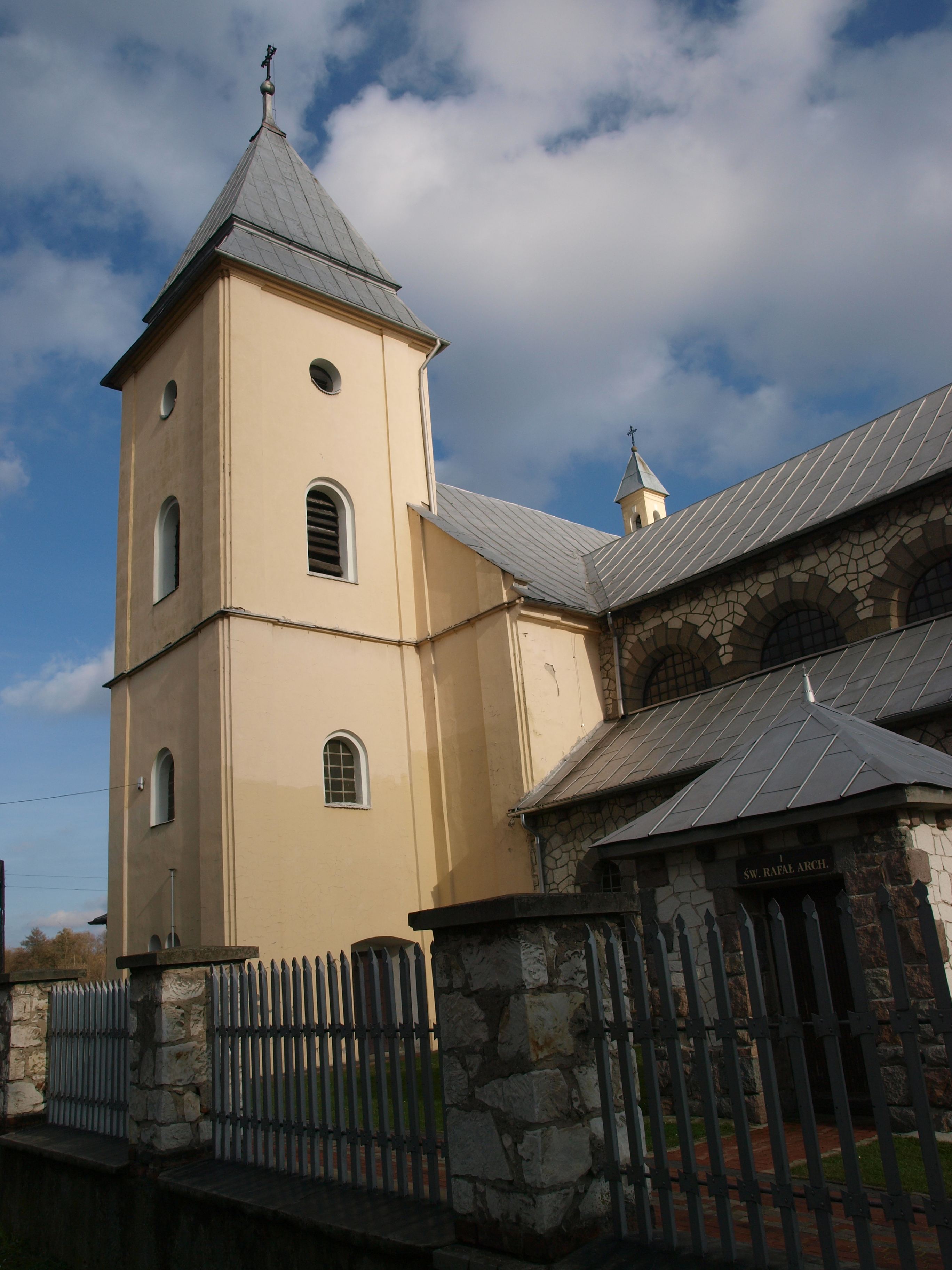 Wasosz-Roman Catholic Church